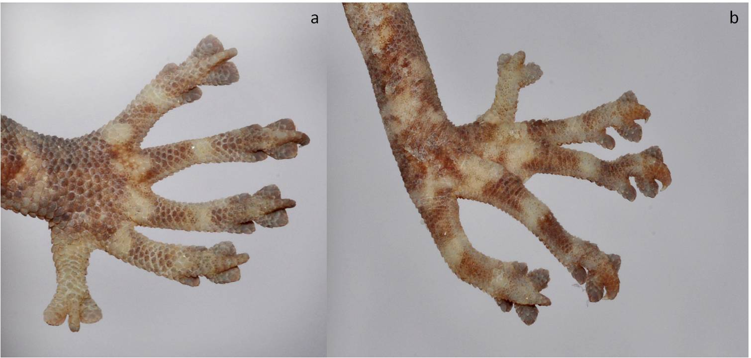 These were specimens in the collection of North Orissa University, Baripada